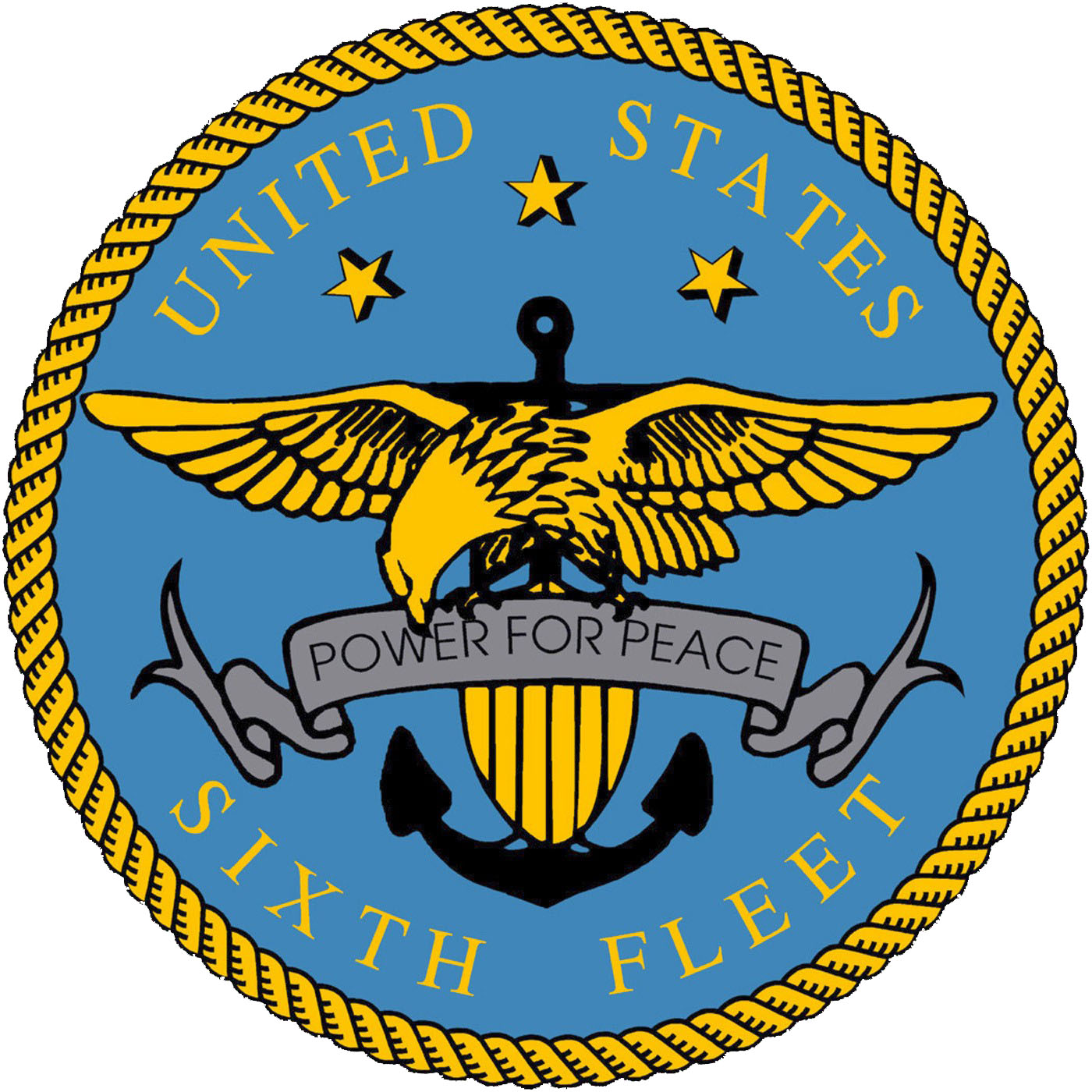 Correction to C6F logo based on original image which is the official website of the United States Sixth Fleet. Corrected logo for C6F